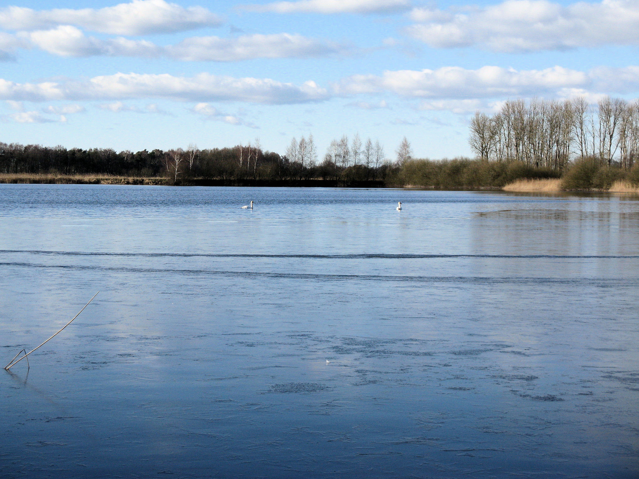 Carp ponds in the north of Neustadt-Glewe, Mecklenburg-Vorpommern, Germany